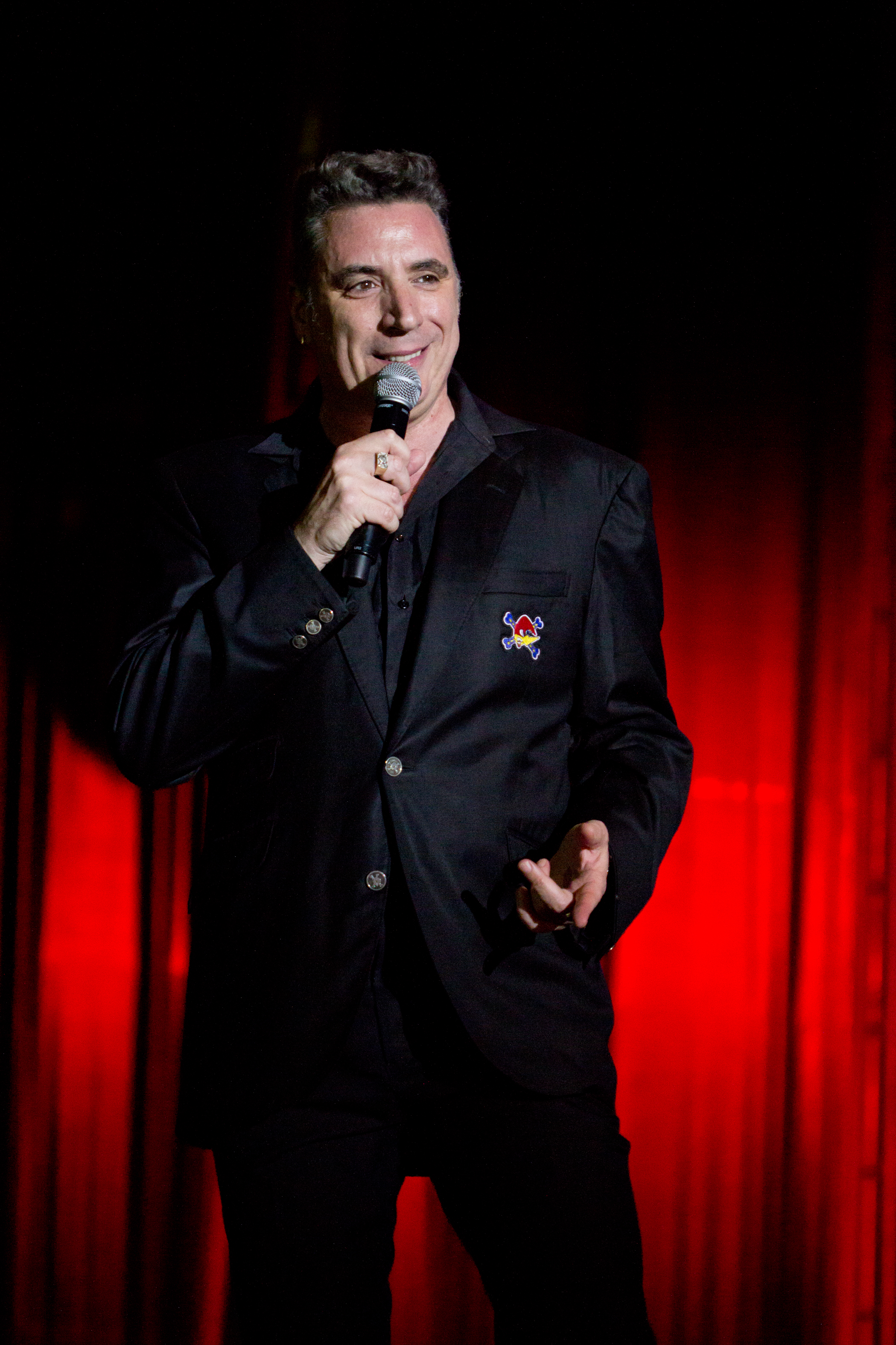 Spanish singer Loquillo at the Músicos en la naturaleza festival in 2013 in Hoyos del Espino, Ávila, Spain.